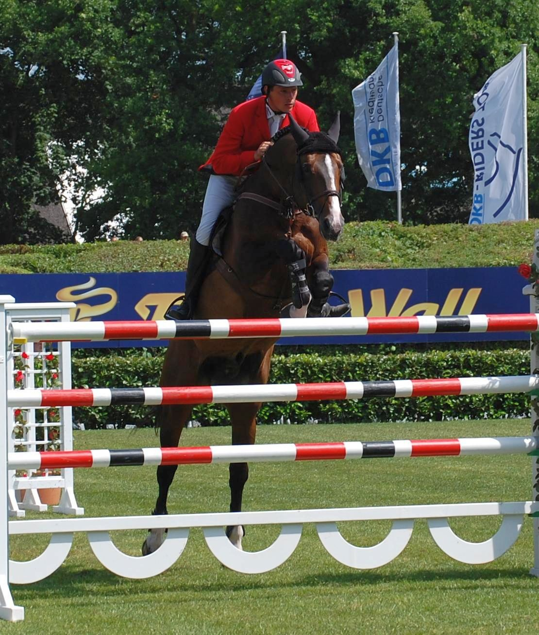 German rider Christian Ahlmann with Taloubet Z, "Championat von Hamburg", CSI 5* Hamburg 2011